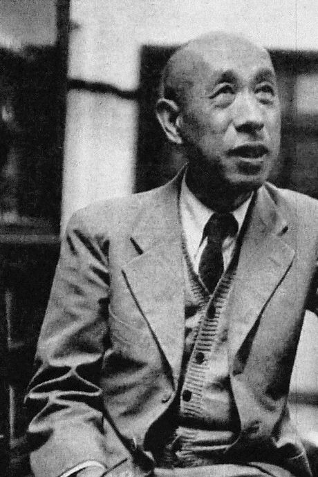 Hideo Fujimori